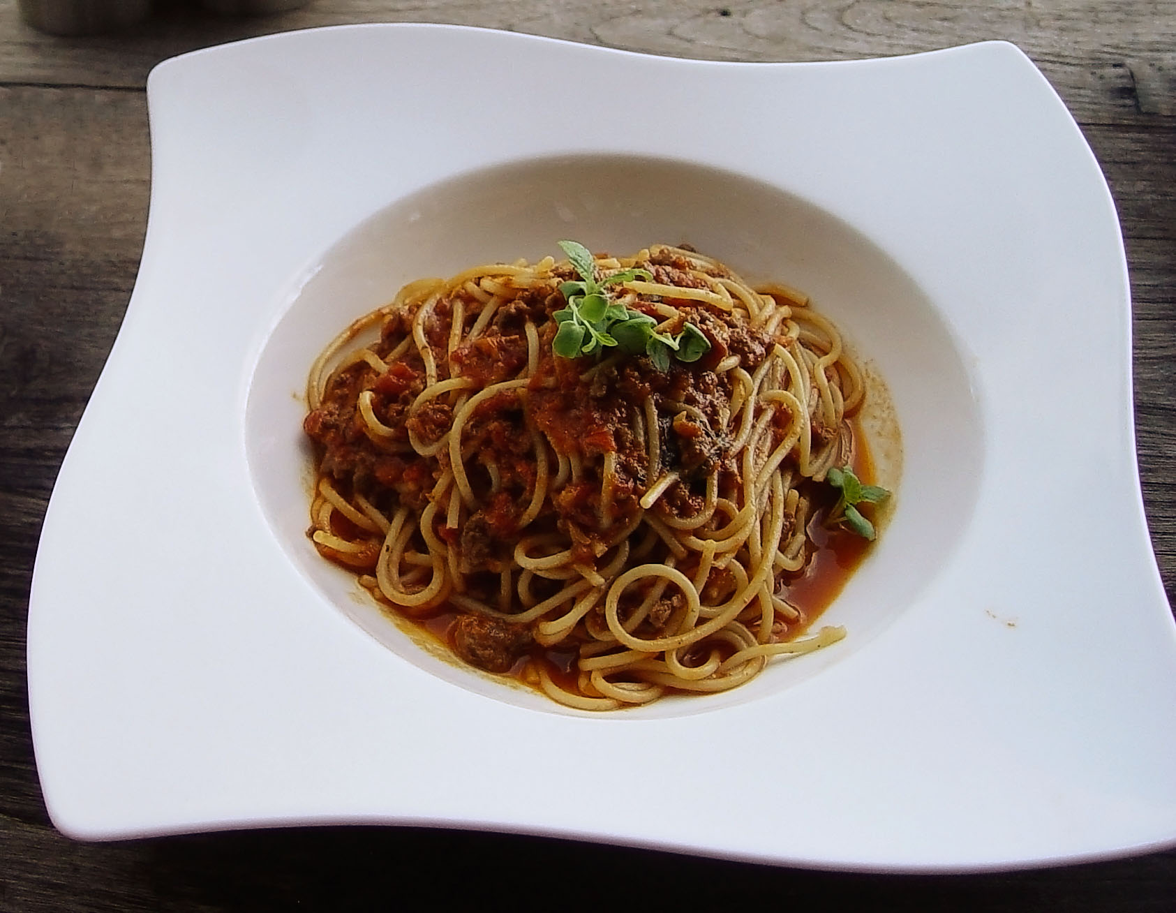 Shot of Spaghetti Bolognese